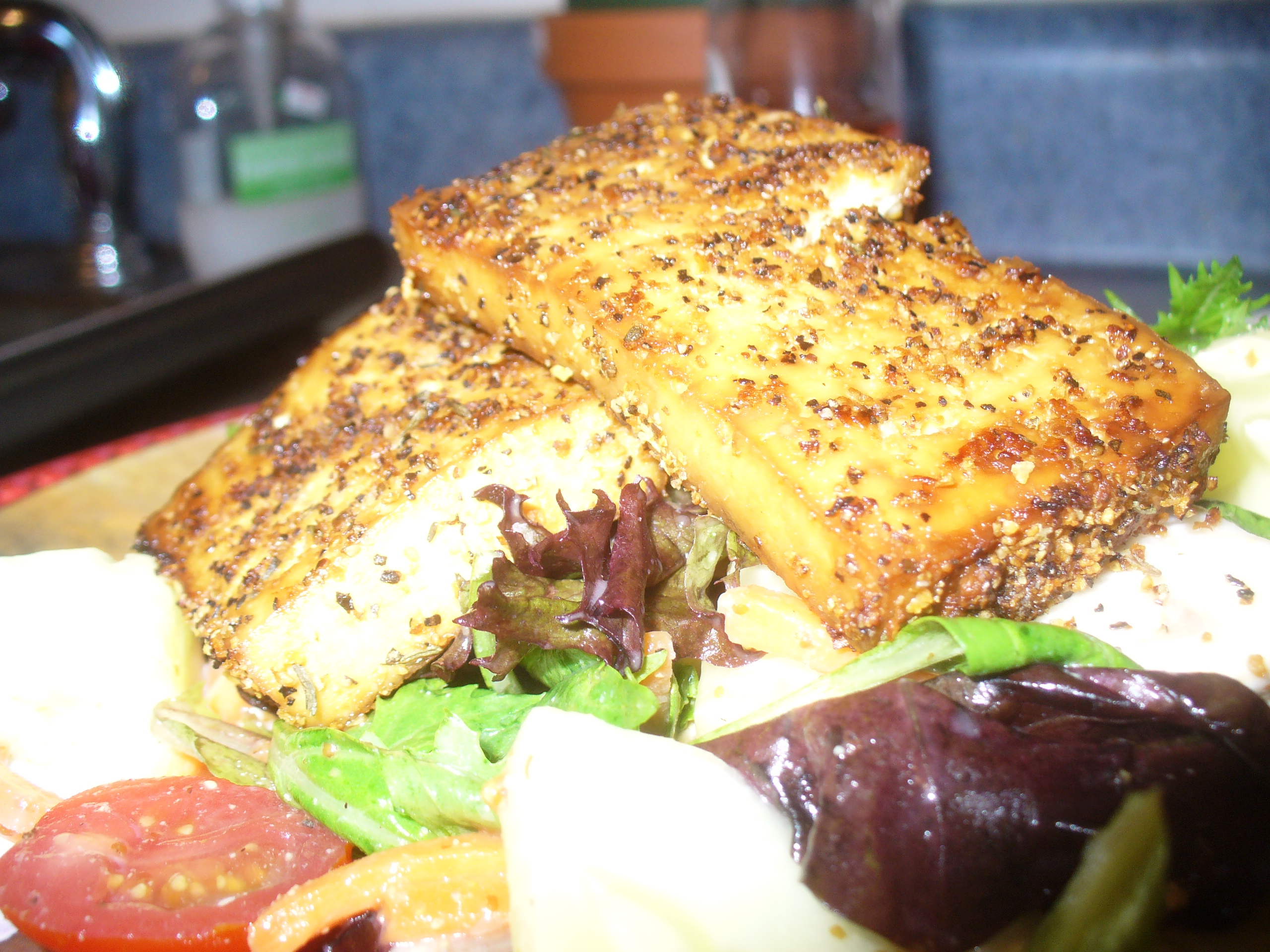 Lemonpeppertofu